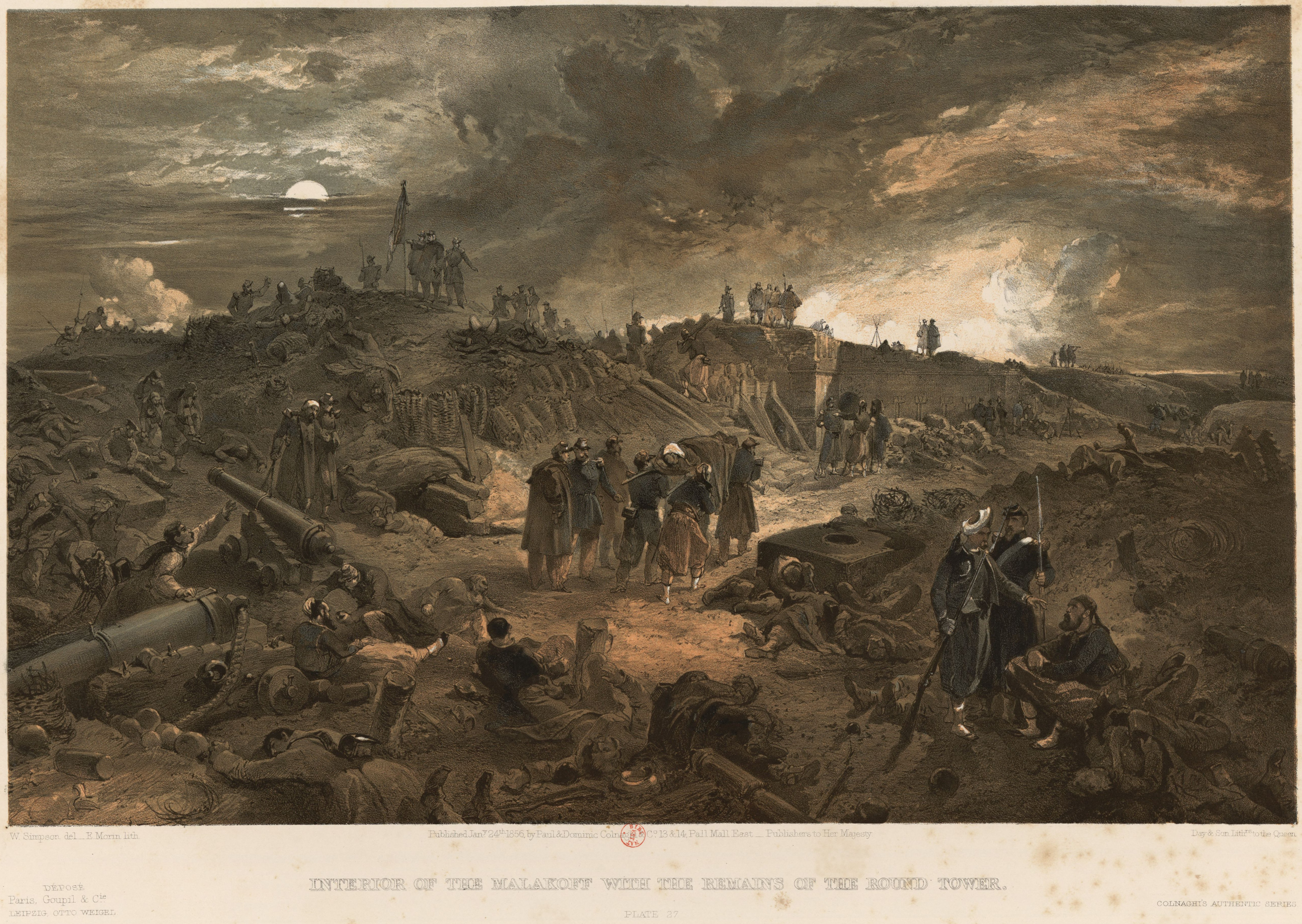 Print shows an interior view of the Malakoff, the main Russian fortification before Sevastopolʹ, following the successful French assault.